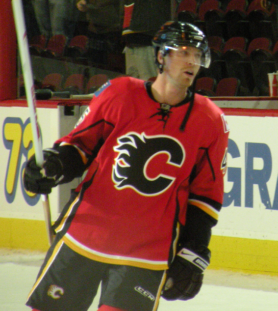 Jamie Lundmark being saluted by the fans after being named third star of the Calgary Flames exhibition game against the Florida Panthers, September 23, 2008.